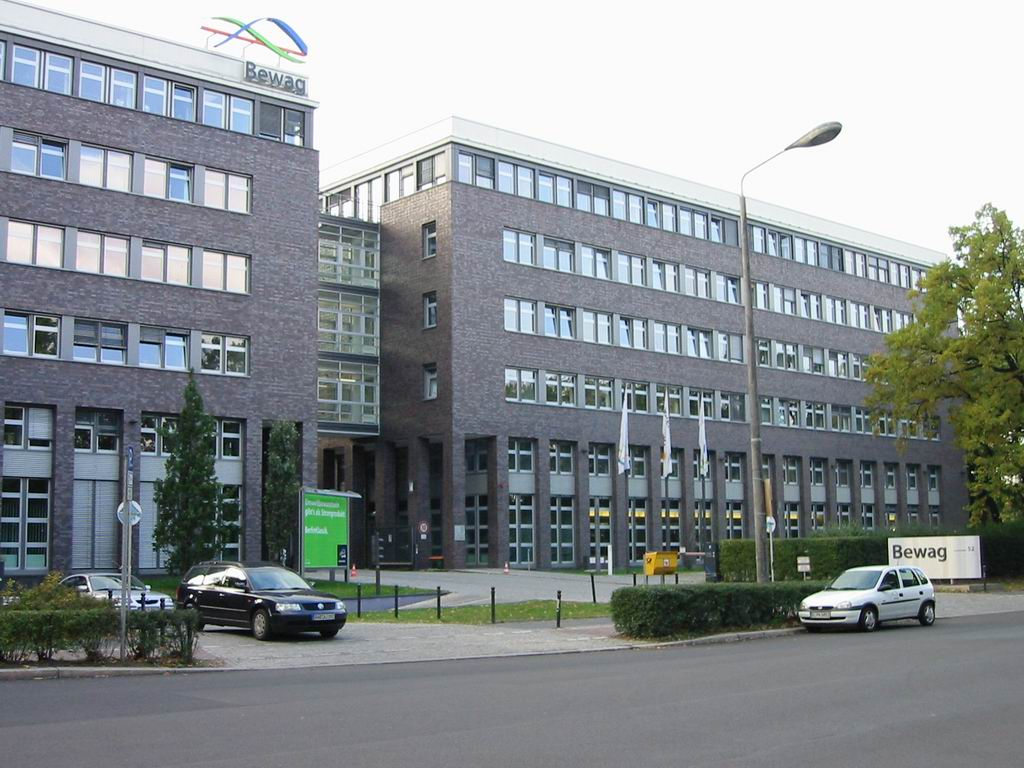 Bewag head office in Berlin in Alt-Treptow